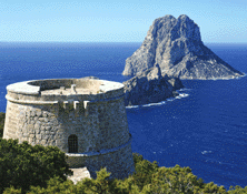 Watching Tower: Cap des Jueu